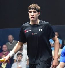 Joshua Masters (left) against Grégory Gaultier (right) during the Individual European Squash Championships 2017